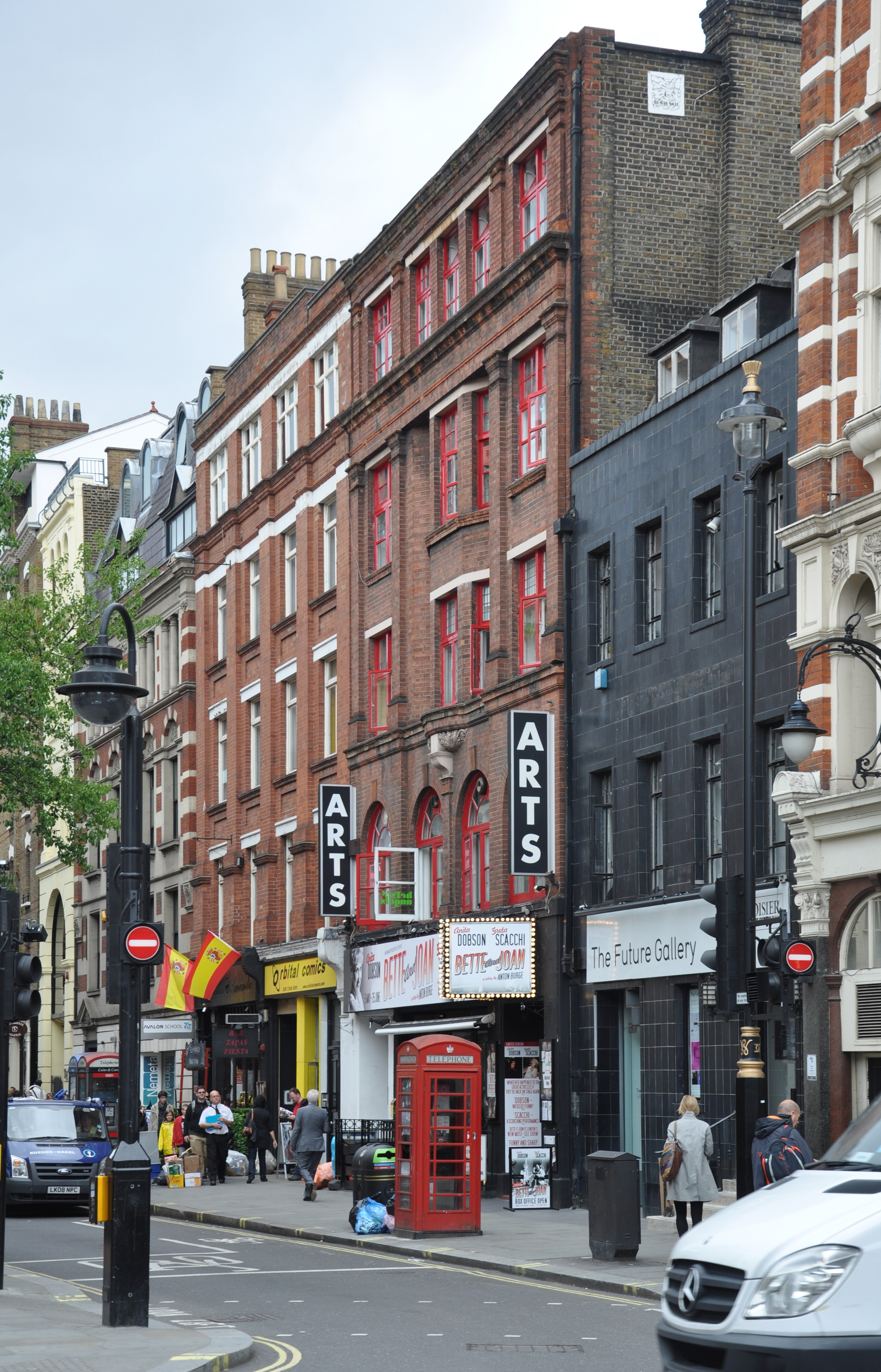 London, Arts Theatre, Great Newport Street, showing Anton Burge's play "Betty and Joan"